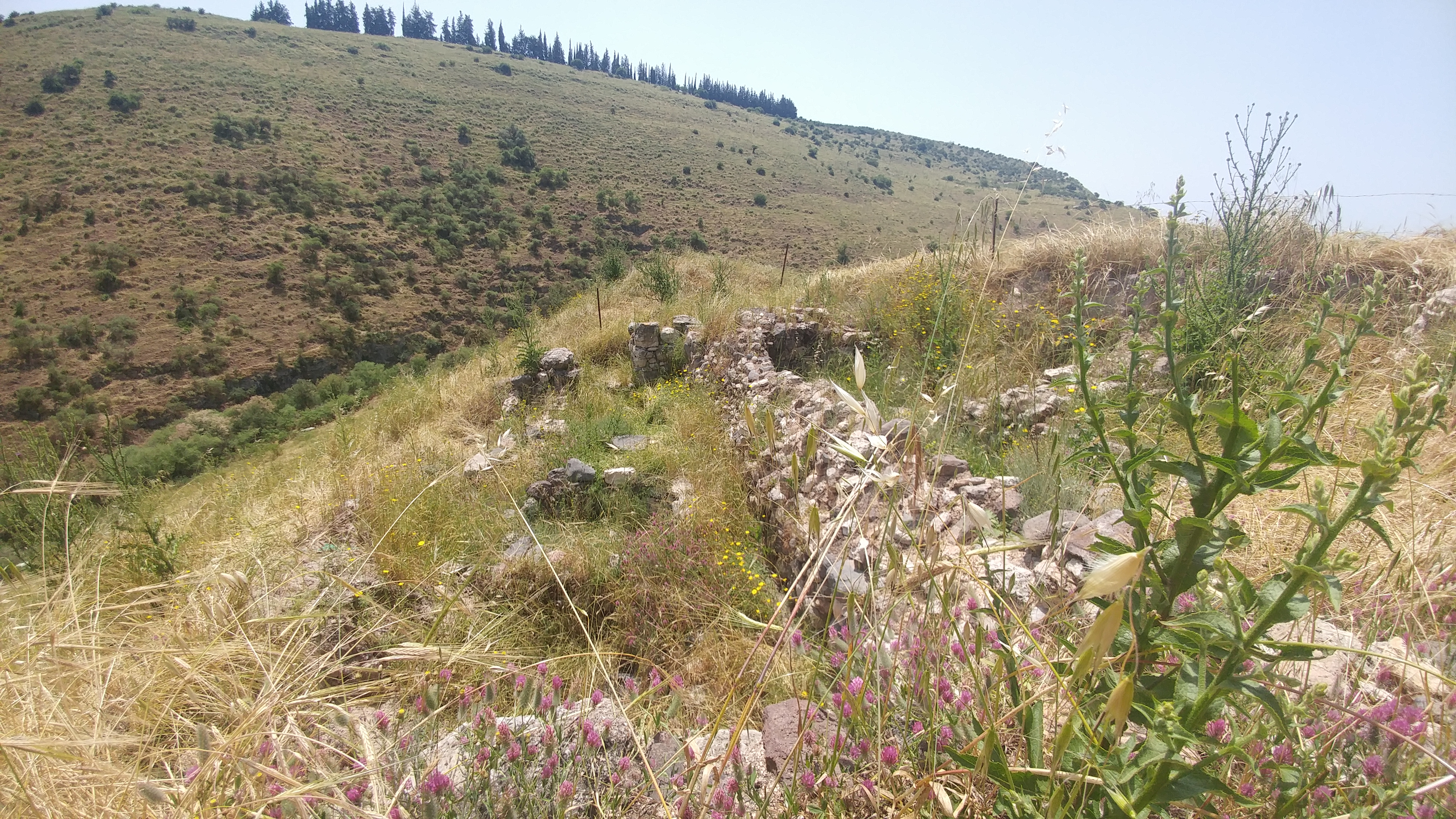 rchaeological excavations in Tel Rekhesh, Israel.